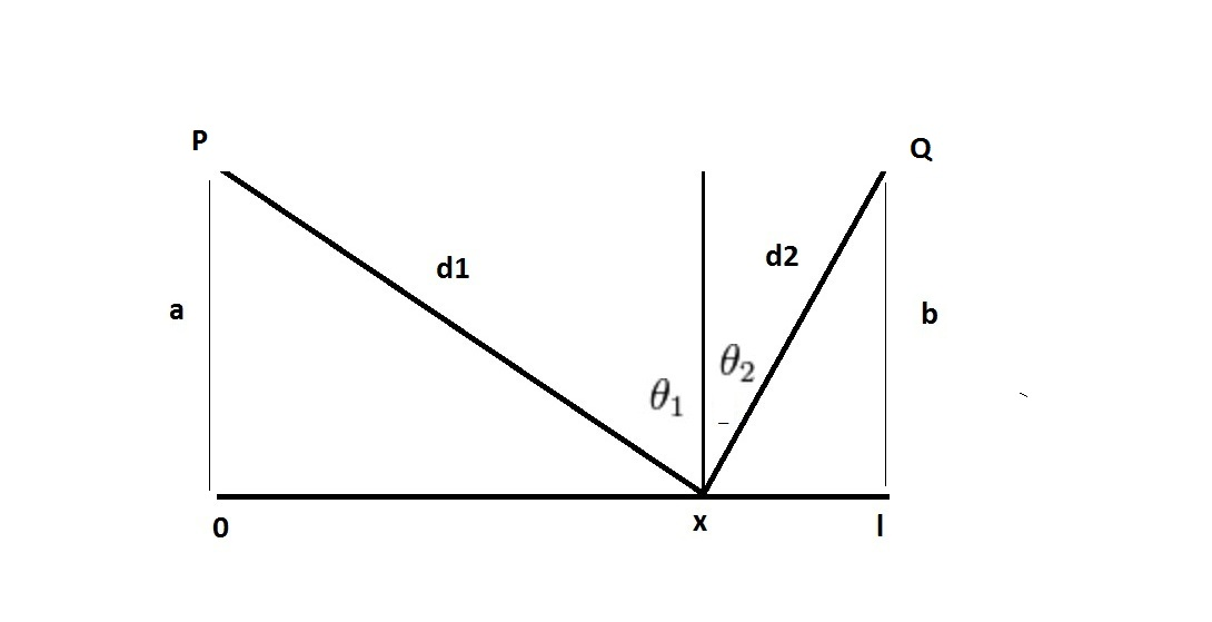 Reflection of light